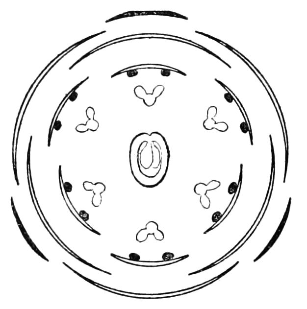 Diagram of euberberis flower